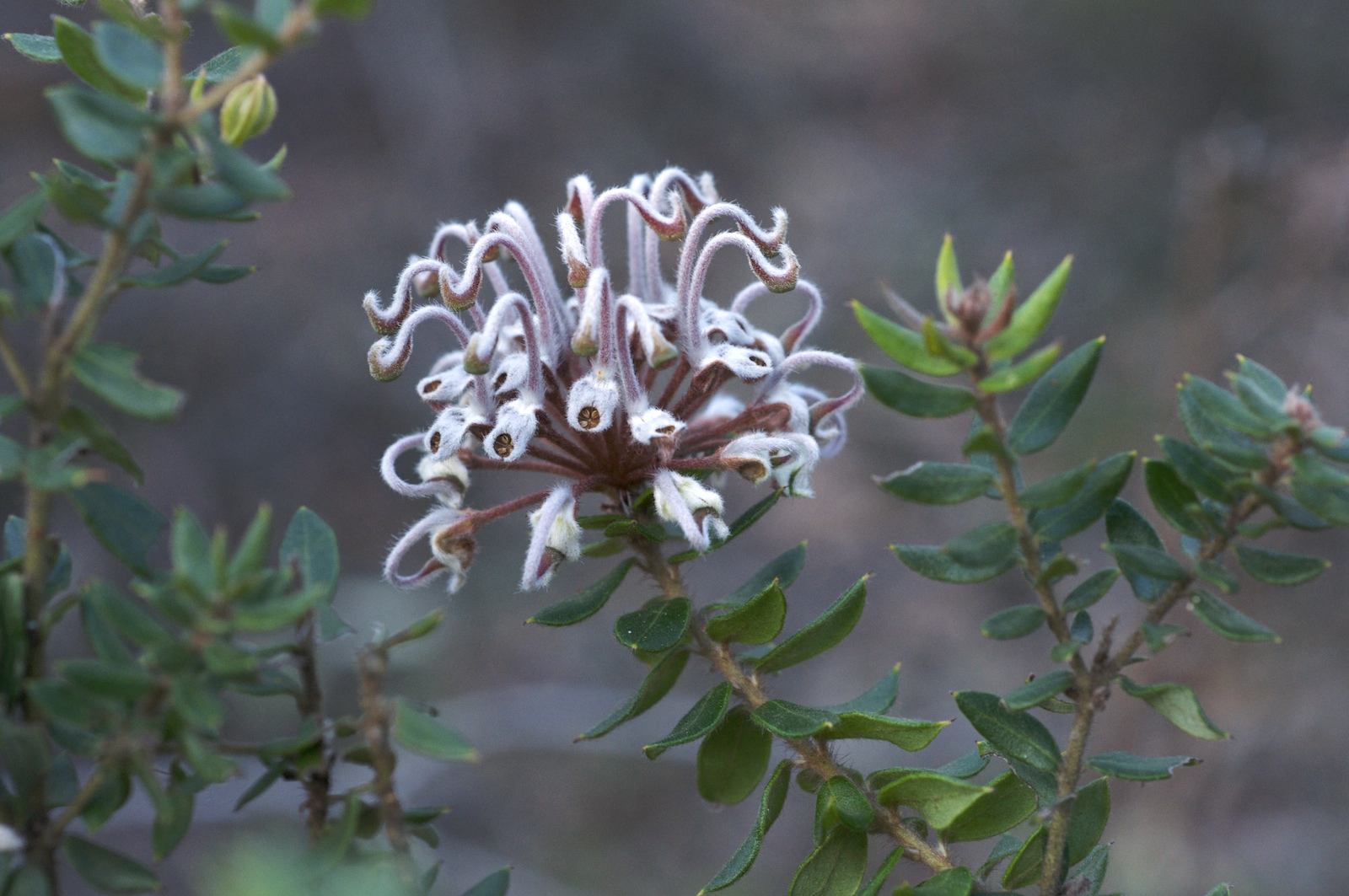 Grevillea from Australia, Ku-Ring-Ga Chase National Park